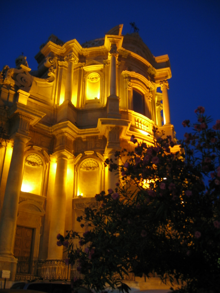 Author : Urban Description : Chiesa San Domenico in Noto, Sicilia Body : Canon Powershot A80 Date : August, 2005